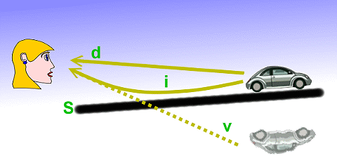 schematic diagram explaining the reflection of light on a hot road.